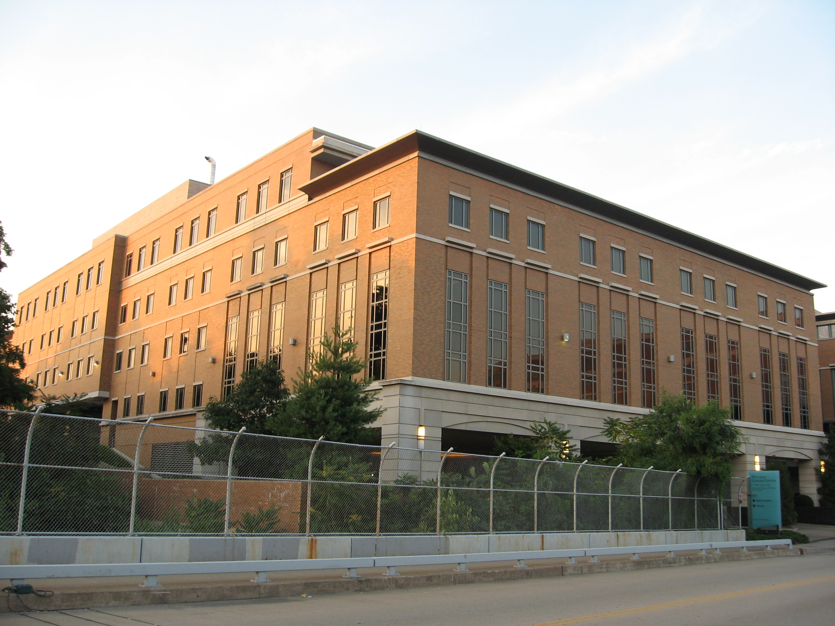 The Hillman Cancer Center in Pittsburgh, part of the University of Pittsburgh Medical Center system.40°27′17.9″N 79°56′33.8″W / 40.454972°N 79.942722°W